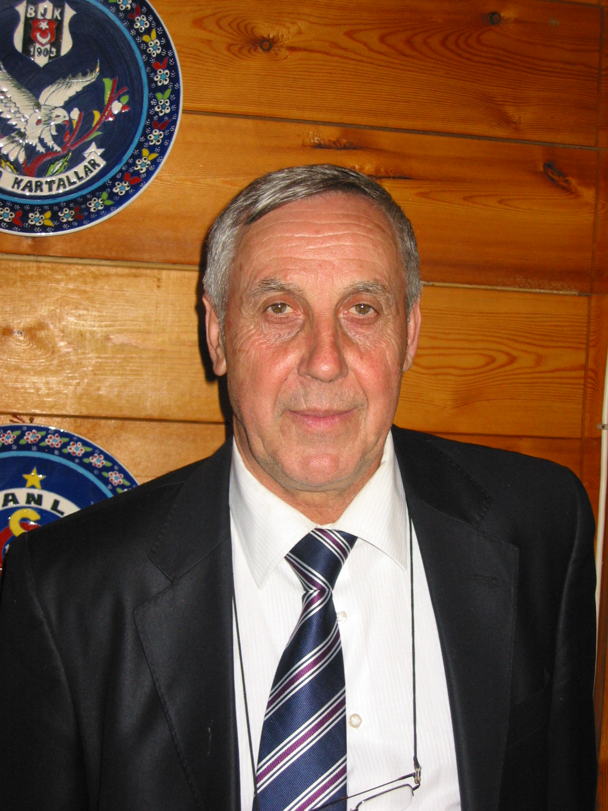 Prof. Dr. Hilmi Ibar, Trakya University Edirne 2011